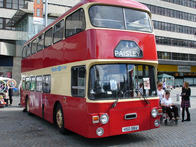 Western (Scottish) Leyland Fleetline Bus (DVLA) Leyland 9999cc Heavy Oil first registered 25 July 1980